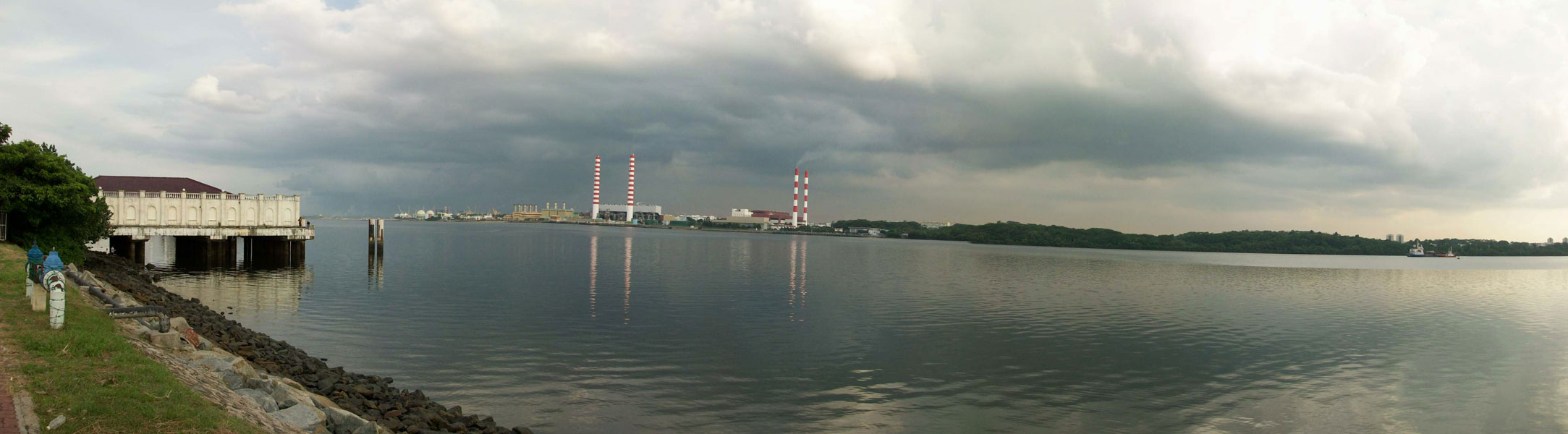 Panorama view of Singapore Senoko power station from in front of Zon Hotel in Malaysia